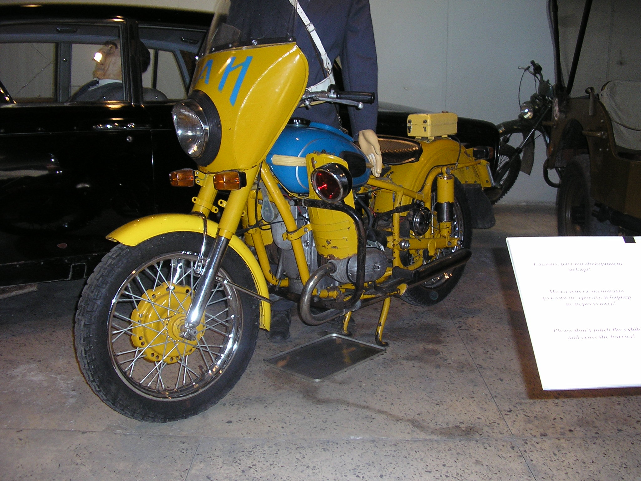 A 1972 M-63P Eskort motorcycle. The model is one of the first single seat (without sidecar) heavy motorcycles in the USSR. It was made in small numbers between 1969 and 1972. The model ws especially made for use in road patrol and escors of the State Transport Inspection. The motorcycle in the picture was used in Riga, Latvia between 1972 and 1989. It was powered by a twin cylinder boxer engine of 649 cc giving 36 hp and a top speed of 130 km/h. The weight was 212 kg.